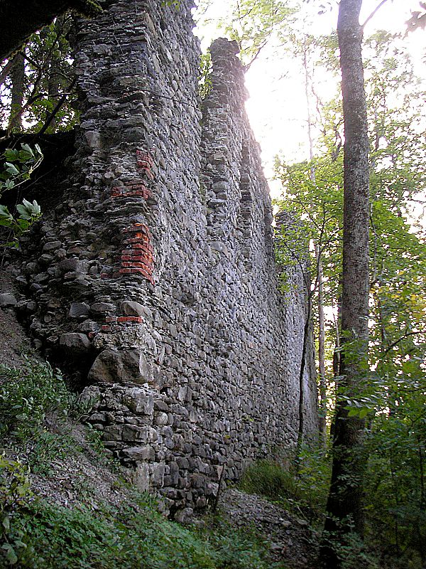 Fluhenstein castle (Berghofen, Stadt Sonthofen, Landkreis Oberallgäu, Bavaria, Germany). The northern wall of the castle